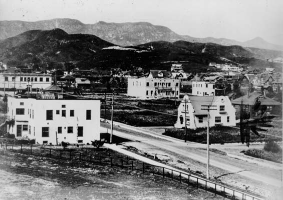 The intersection of Hollywood Blvd. and Highland in Hollywood, with residences, in 1907. Location of the present Hollywood and Highland complex, and center of Hollywood tourism.